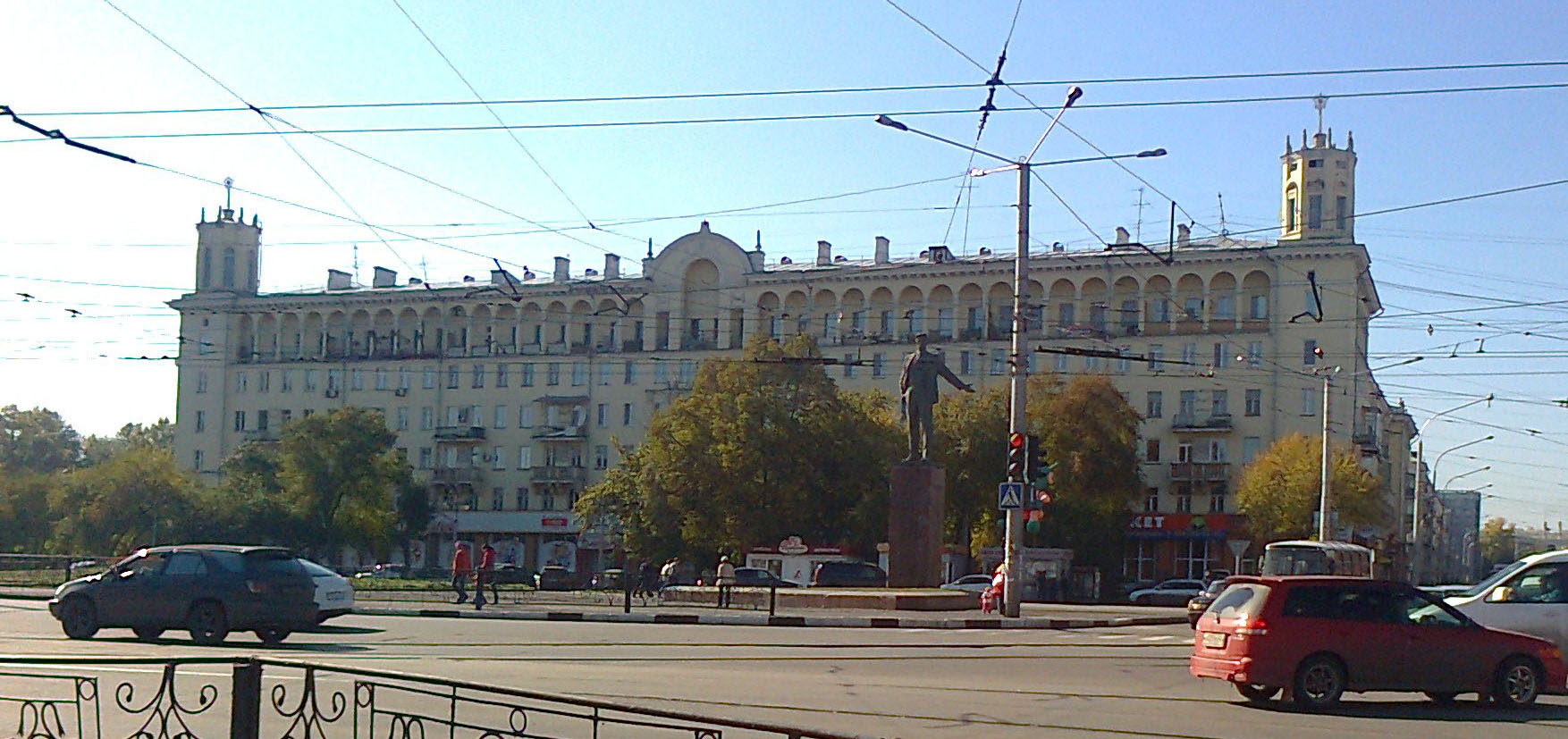 Novokuznetsk, Mayakovsky Square (September, 2012)